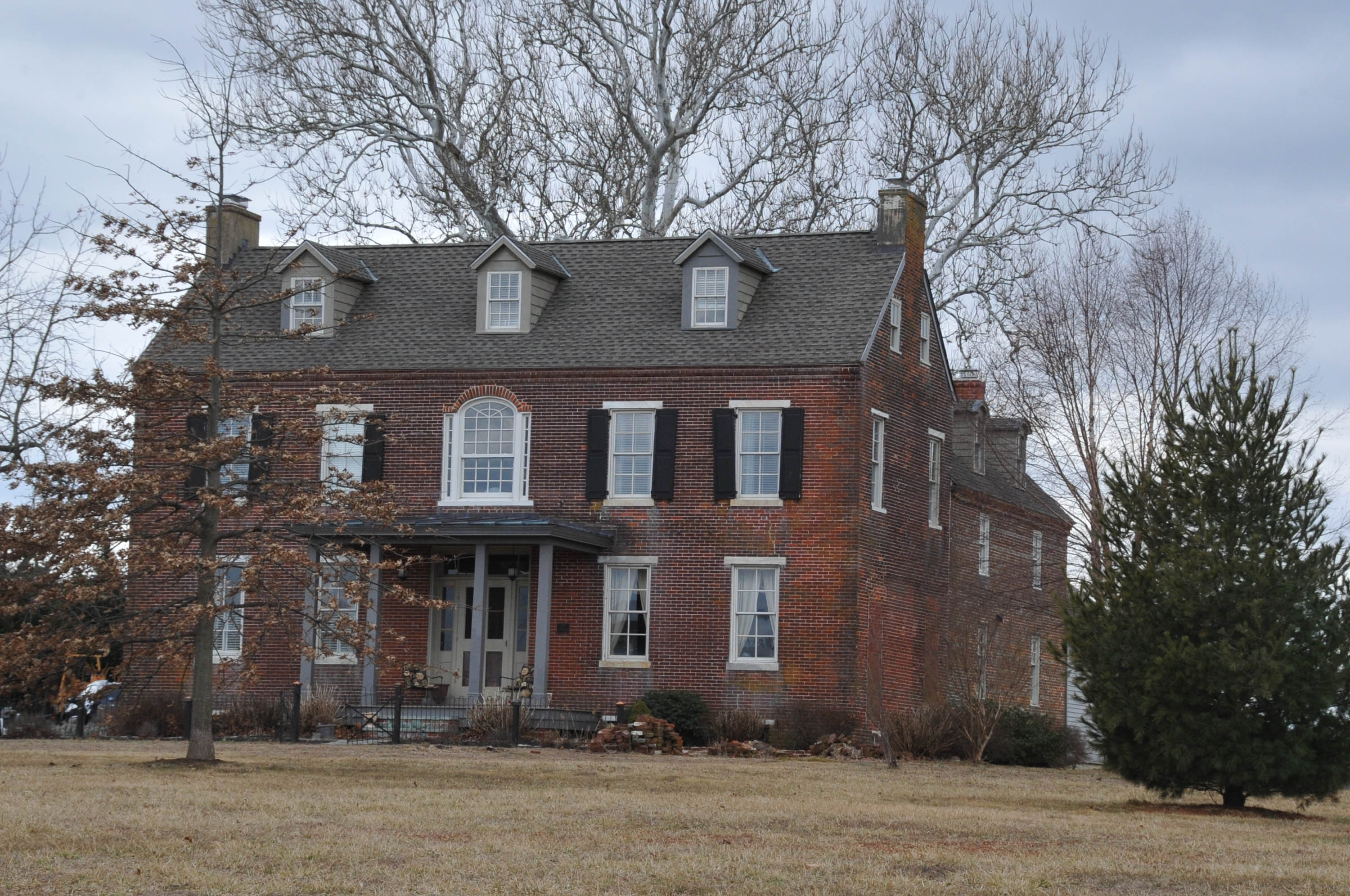 BUILT IN 1820 WITH AN 1840-1850 ADDITION; ITS DISTINCTIVE FEATURE IS THE PALLADIAN WINDOW ABOVE THE FRONT FACADE